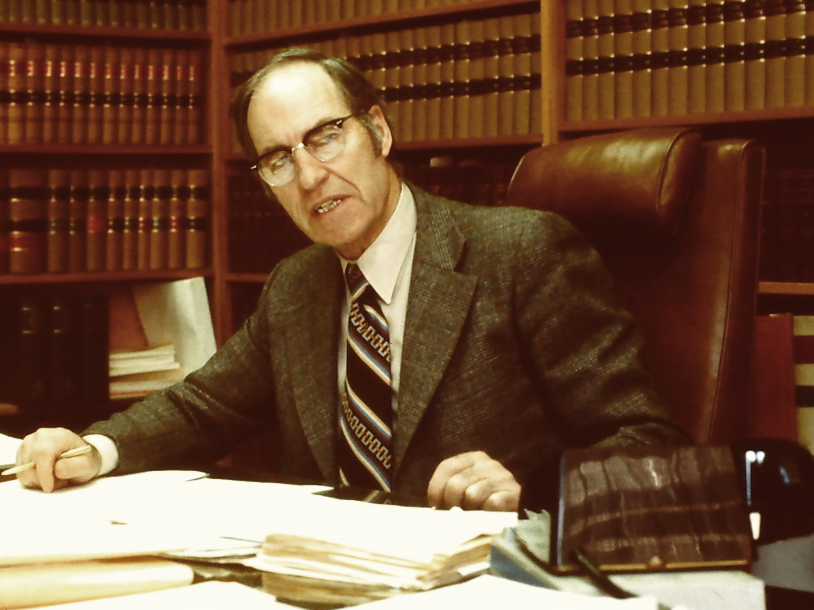 Robert A. Walker Q.C. (1916-1989) taken in 1980 in the practice of law at Saskatoon, Saskatchewan.